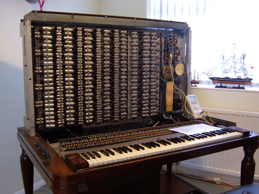 Inside the Hammond Novachord